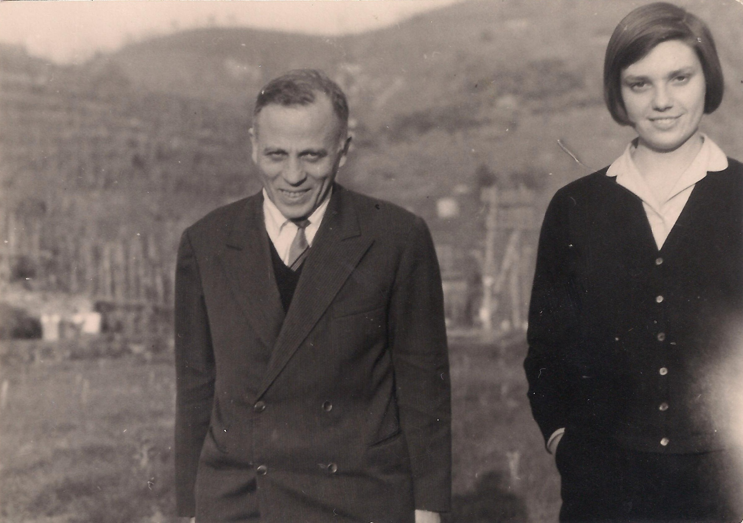 Ernesto de Martino and Muzi Epifani, about 1956